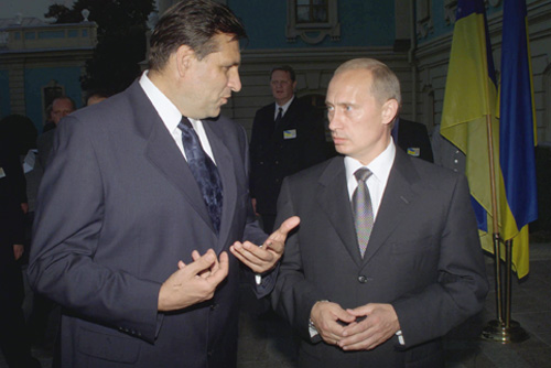 MARIINSKY PALACE, KIEV. President Vladimir Putin and Macedonian President Boris Trajkovski before a reception in honour of the 10th anniversary of Ukraine\'s independence.